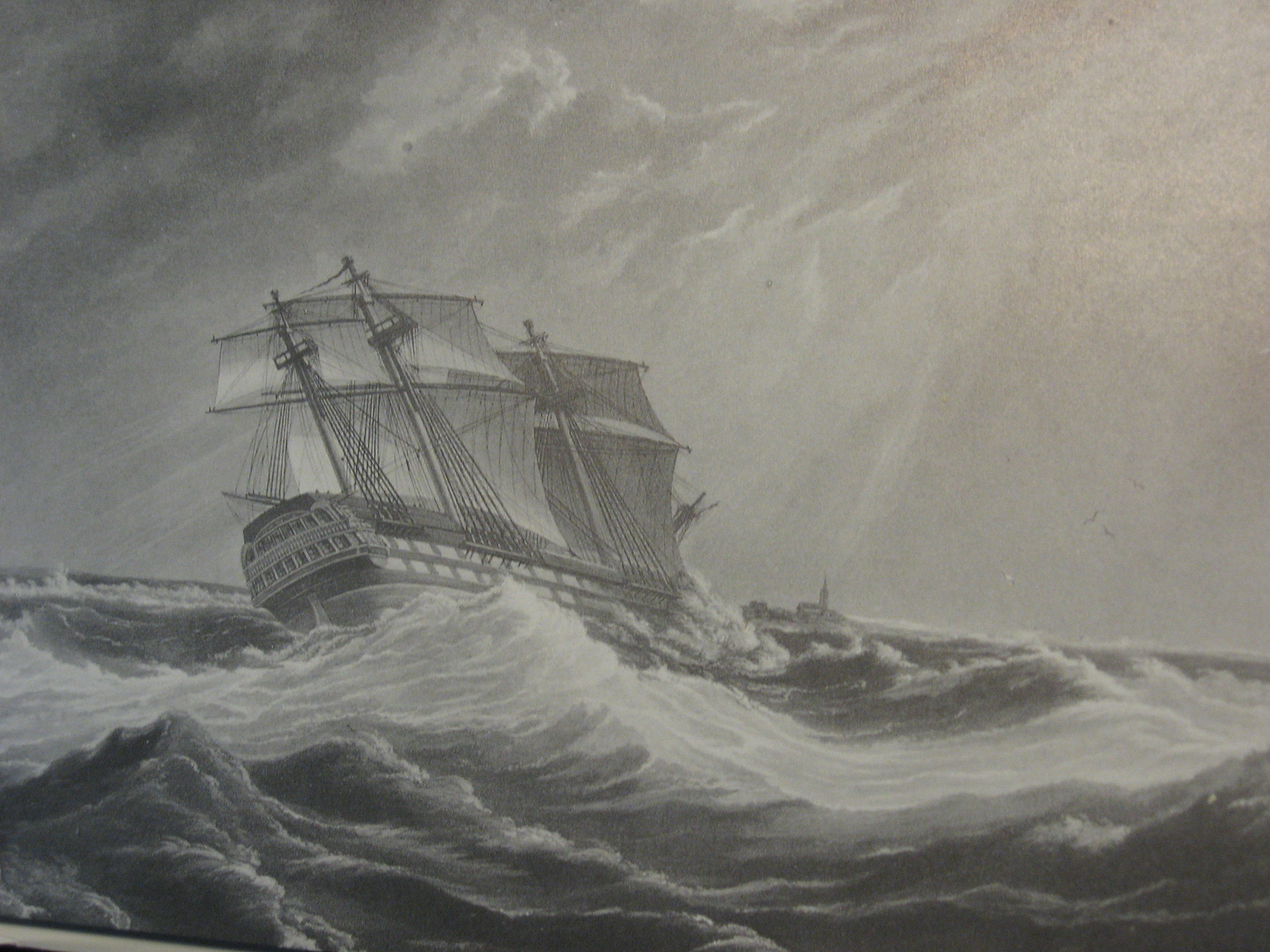 This representation of His Majesty's Ship Magnificent, 74 Guns... Showing (after cutting the Cables in a S.W. Gale) ... making sail ... 17th Decr 1812 ... dedicated ... to John Hayes, Capt. Сие изображение корабля Его Величества Magnificent, в 74 пушек, (по обрубании якорных канатов в SW шторм) ставящего паруса, 17 дек 1812 ... посвящается Джону Хейсу, капитану